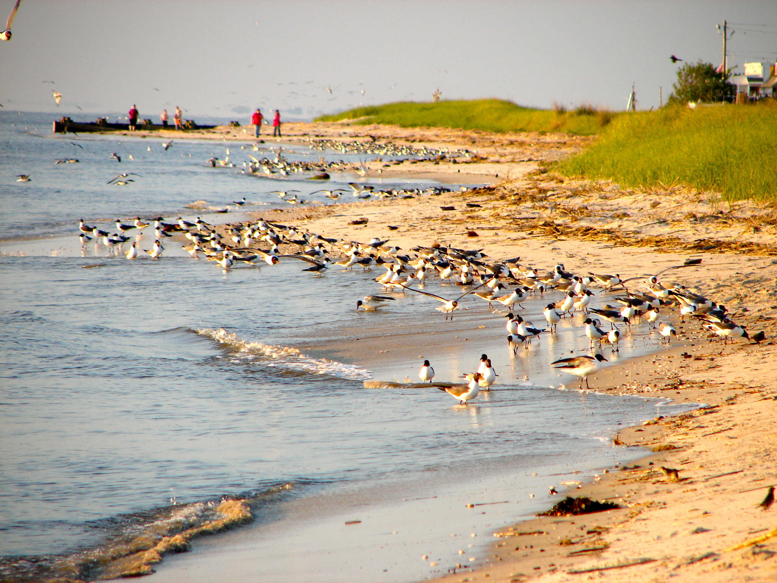 Delaware Bay shoreline at Villas, on Cape May showing sand, dunes, and Laughing Gulls. This is about 5 miles from Cape May Point, so is almost on the Atlantic Ocean, but the shores are quite different